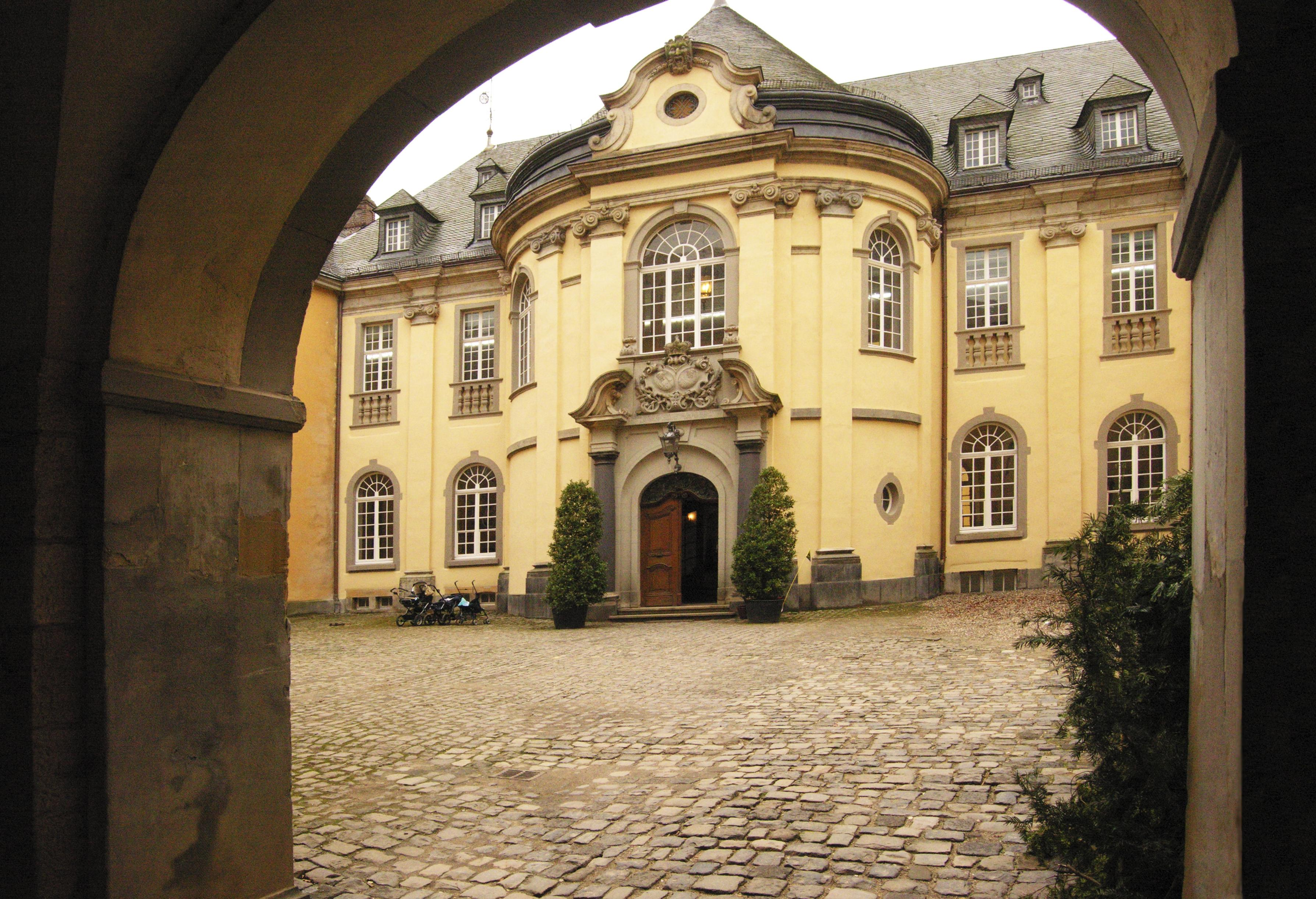 Schloss Dyck, inner courtyard